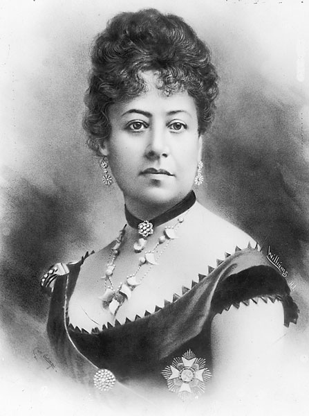 The portrait of Queen Emma of Hawaii, wearing the Royal Order and Ribbon of Kamehameha I and her famous tiger's claw necklace. Charcoal artwork by J. Ewing, on a photograph reproduced by J. J. Williams.